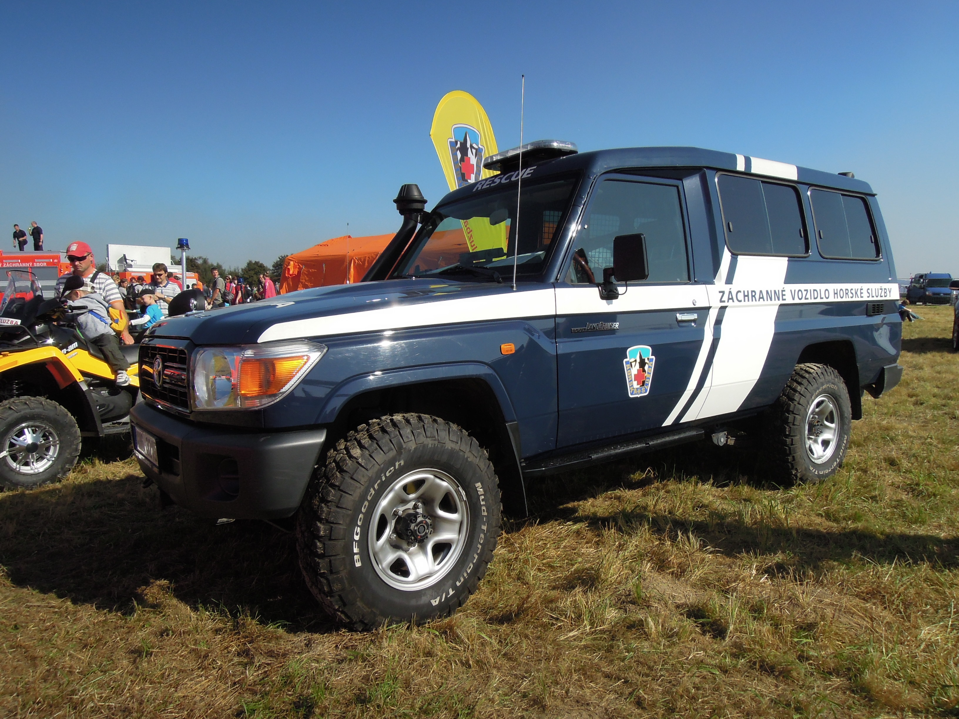 Toyota Land Cruiser rescue vehicle of Mountain rescue in the Czech Republic